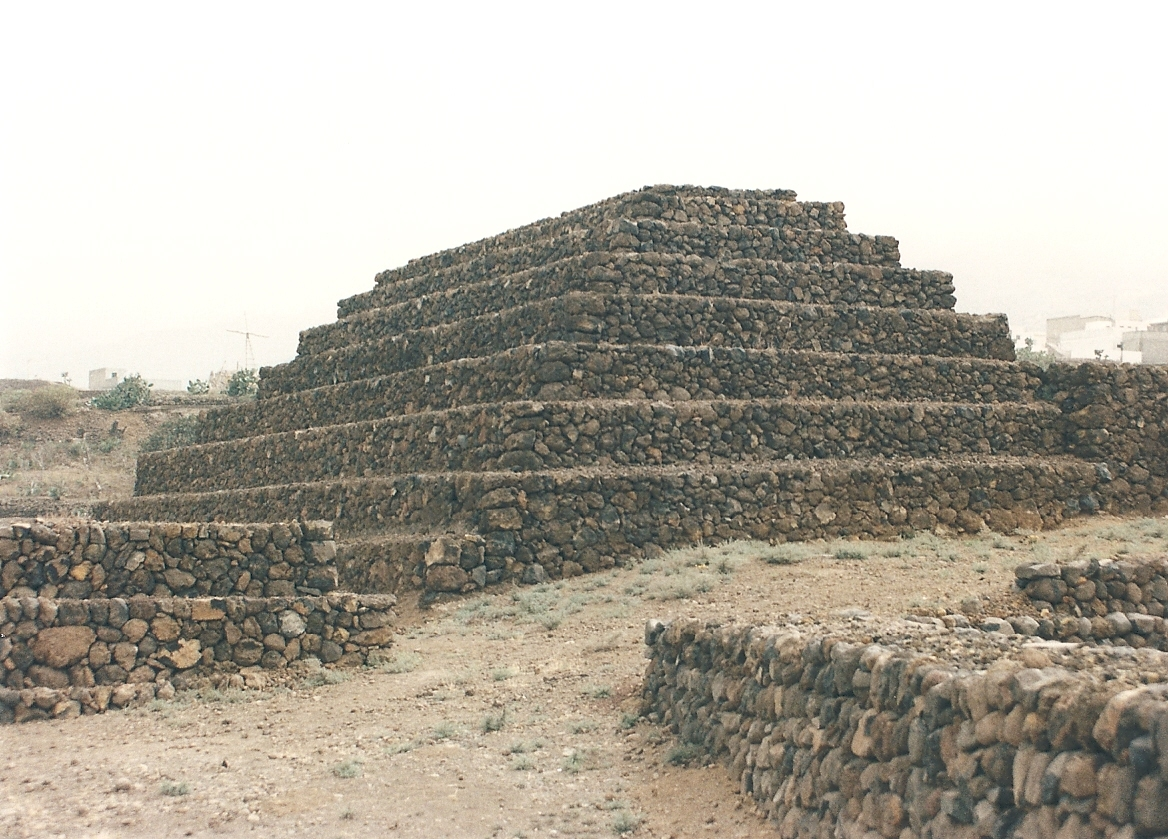 The Pyramids of Guimar, Canary Islands, Spain